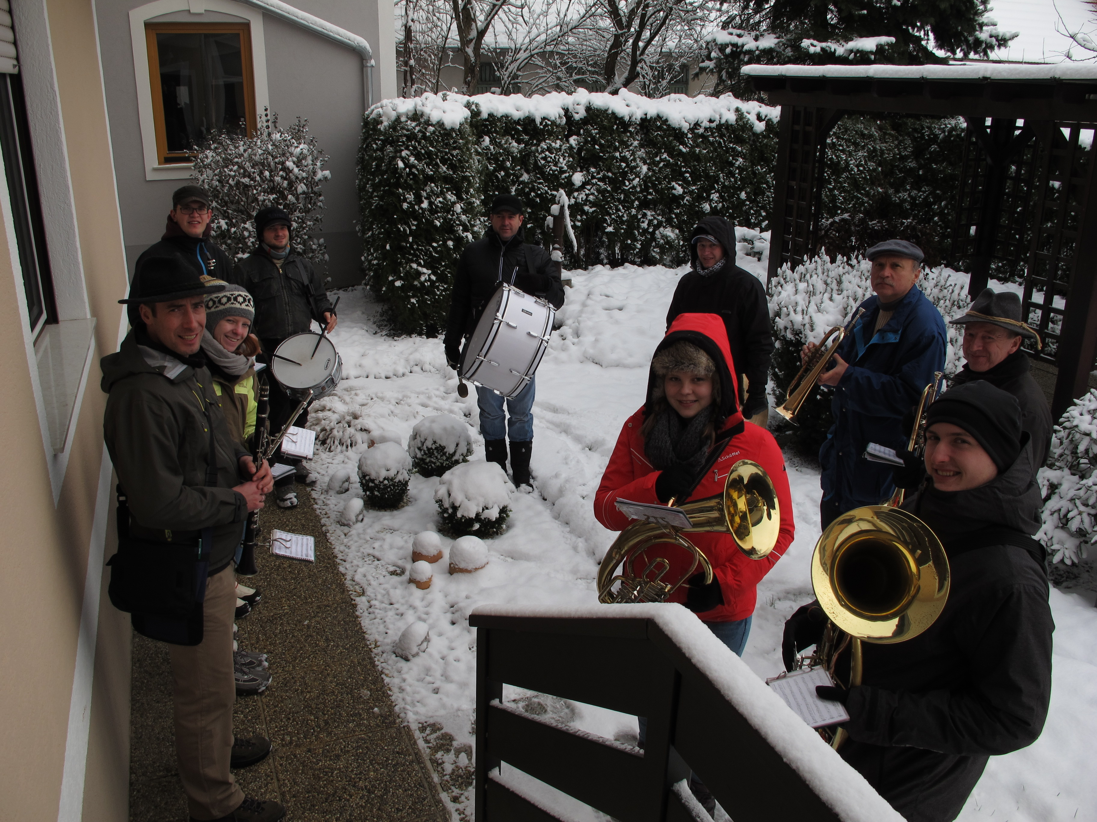 Newyear Music, Neujahrgeiger, Styria